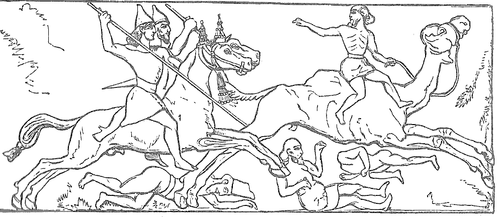 Arabs horsemen pursue defeated Assyrian.